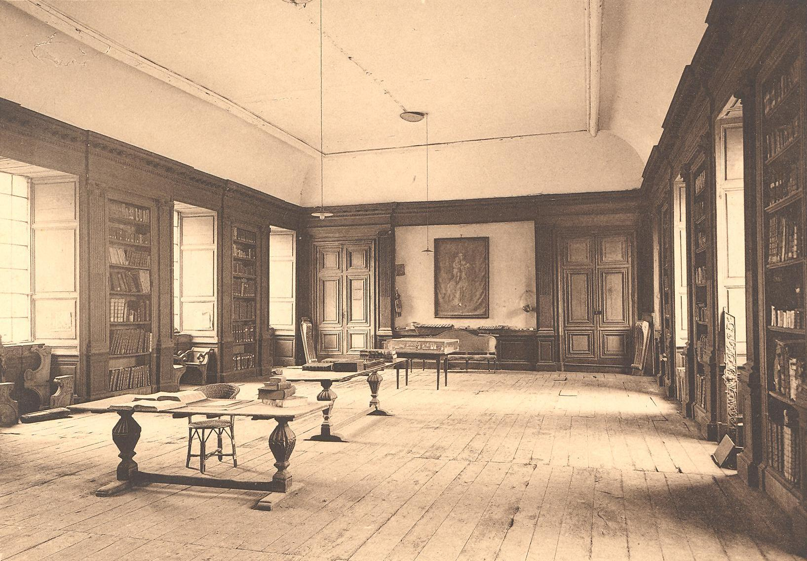 Bonne-Espérance Abbey, Vellereille-les-Brayeux (Belgium), the library (1713-1718).